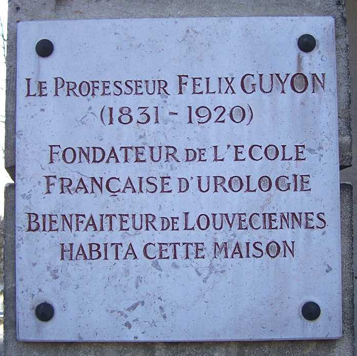 Commemorative plate for Dr Félix Guyon in Louveciennes (Yvelines, France)